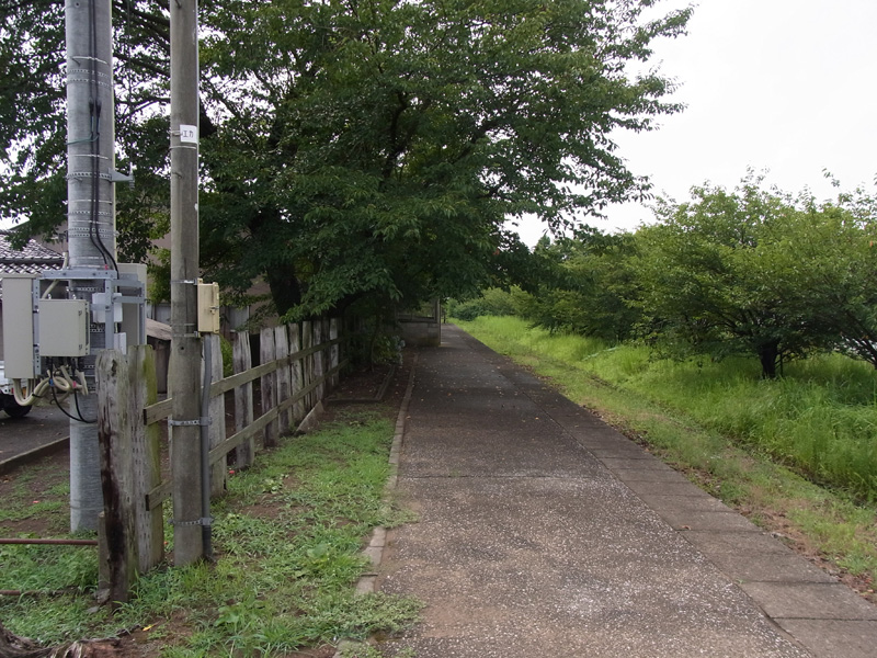 shoin station